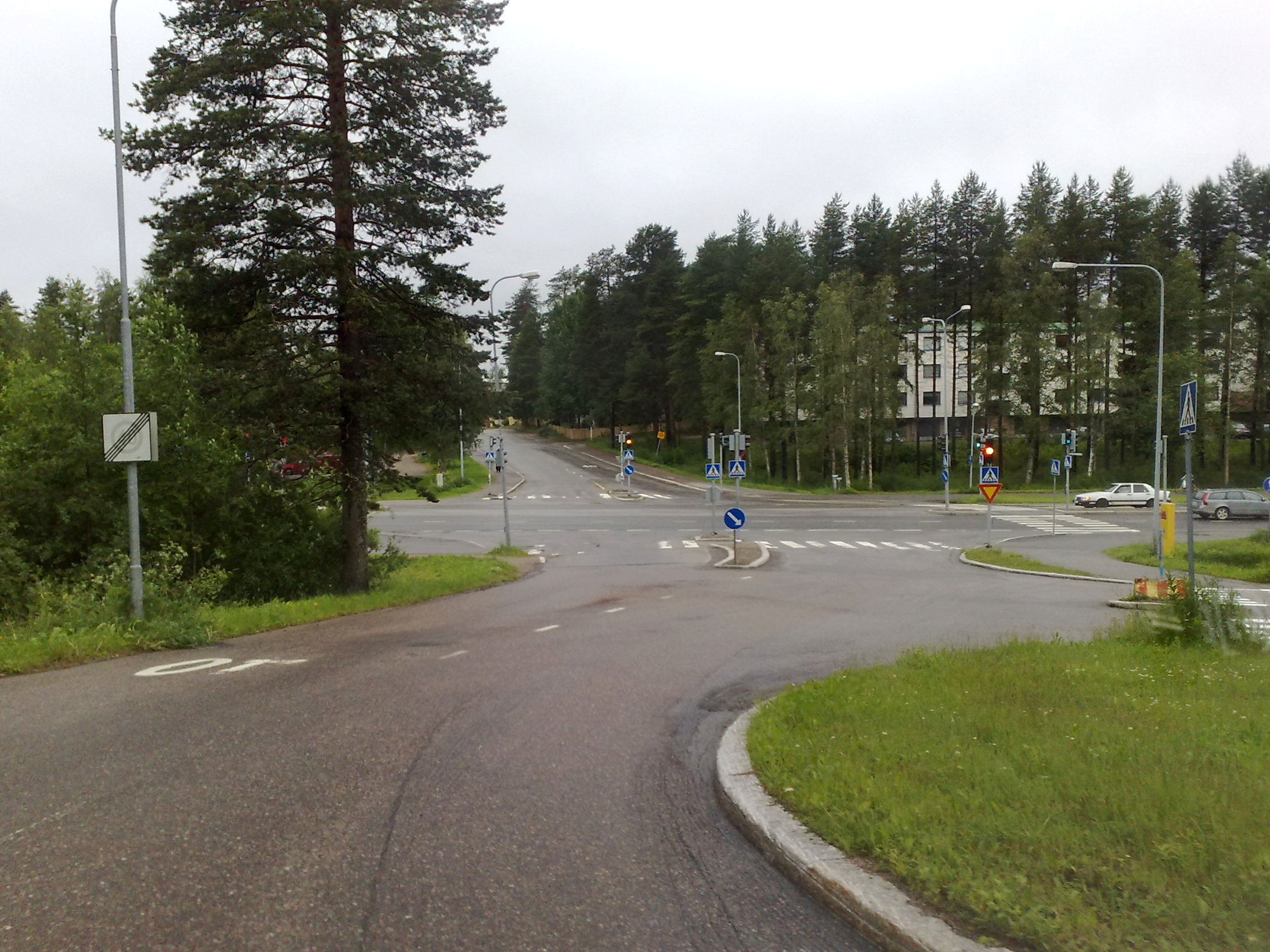 Intersection of Sotkamontie, Sudensuu and Tornitie in Kajaani, Finland. Taken from Tornitie direction, in 9th of July, 2012.